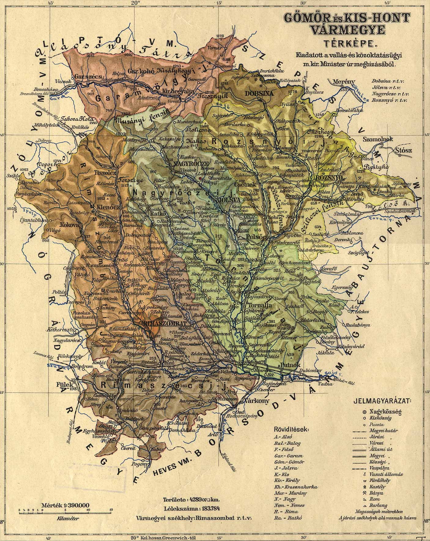 Administrative map of the county of Gömör and Kis-Hont in the Kingdom of Hungary